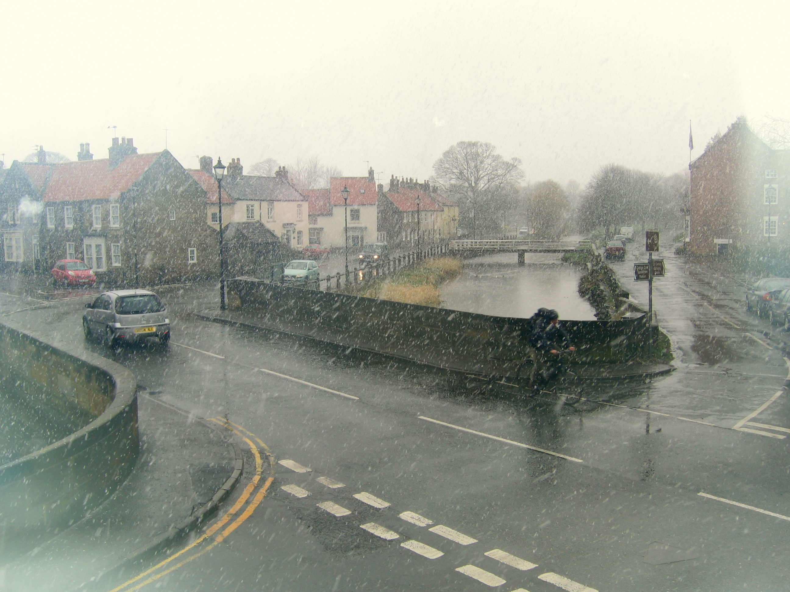 Sleet (according to the British definition: Snow melting as it falls) in Great Ayton, North Yorkshire.